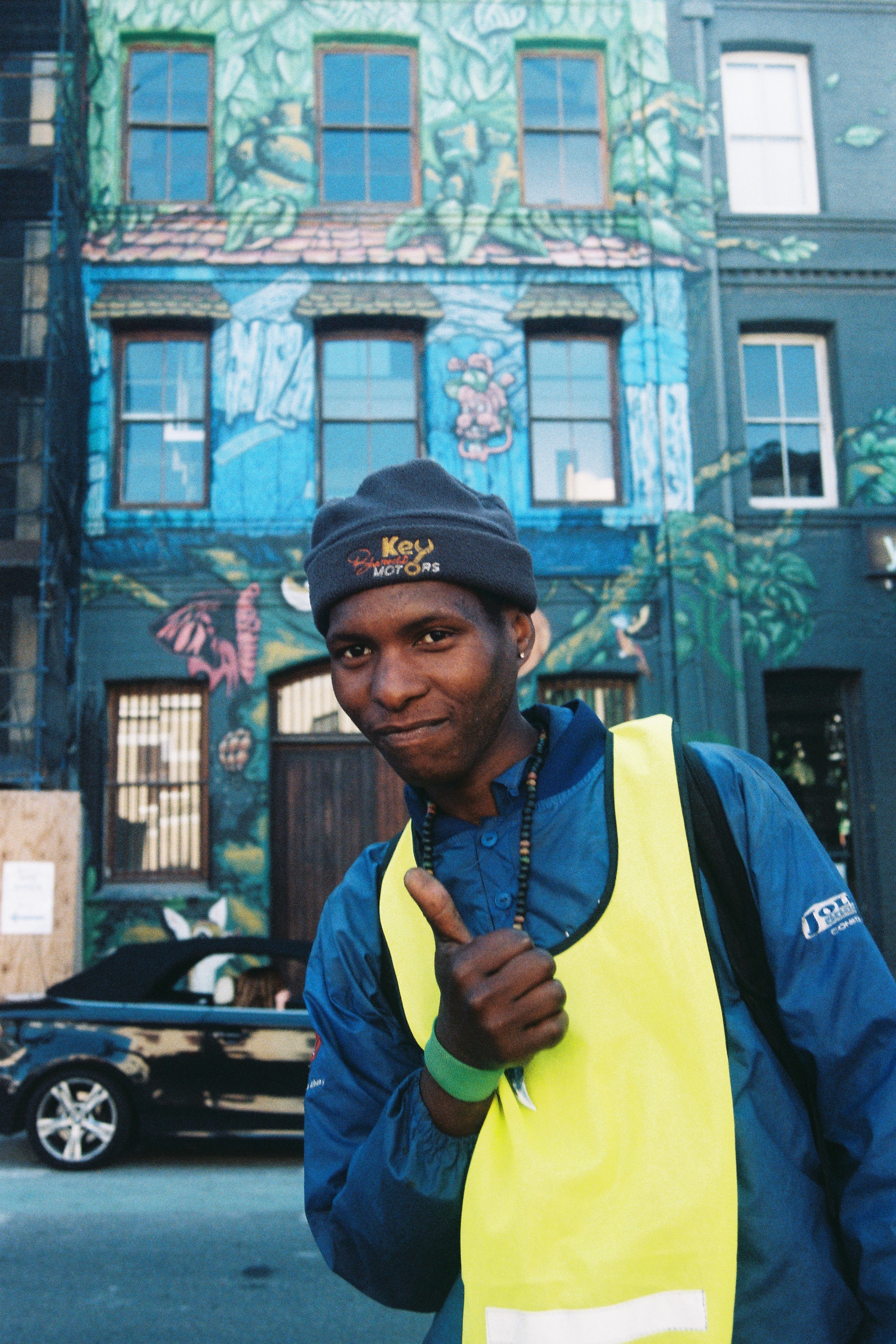 Car Guards - usually self-appointed and often invisibilized - occupy a key sector of work that is considered to be "informal" in South Africa. Used in nationalist advertisements and scoffed at as 'opportunists', they spend hours - in the sun, on rainy days, in the evening, and at the break of dawn - guarding our cars as we shop, eat, and be merry within our various privileges. This is an image of "African people at work" from South Africa